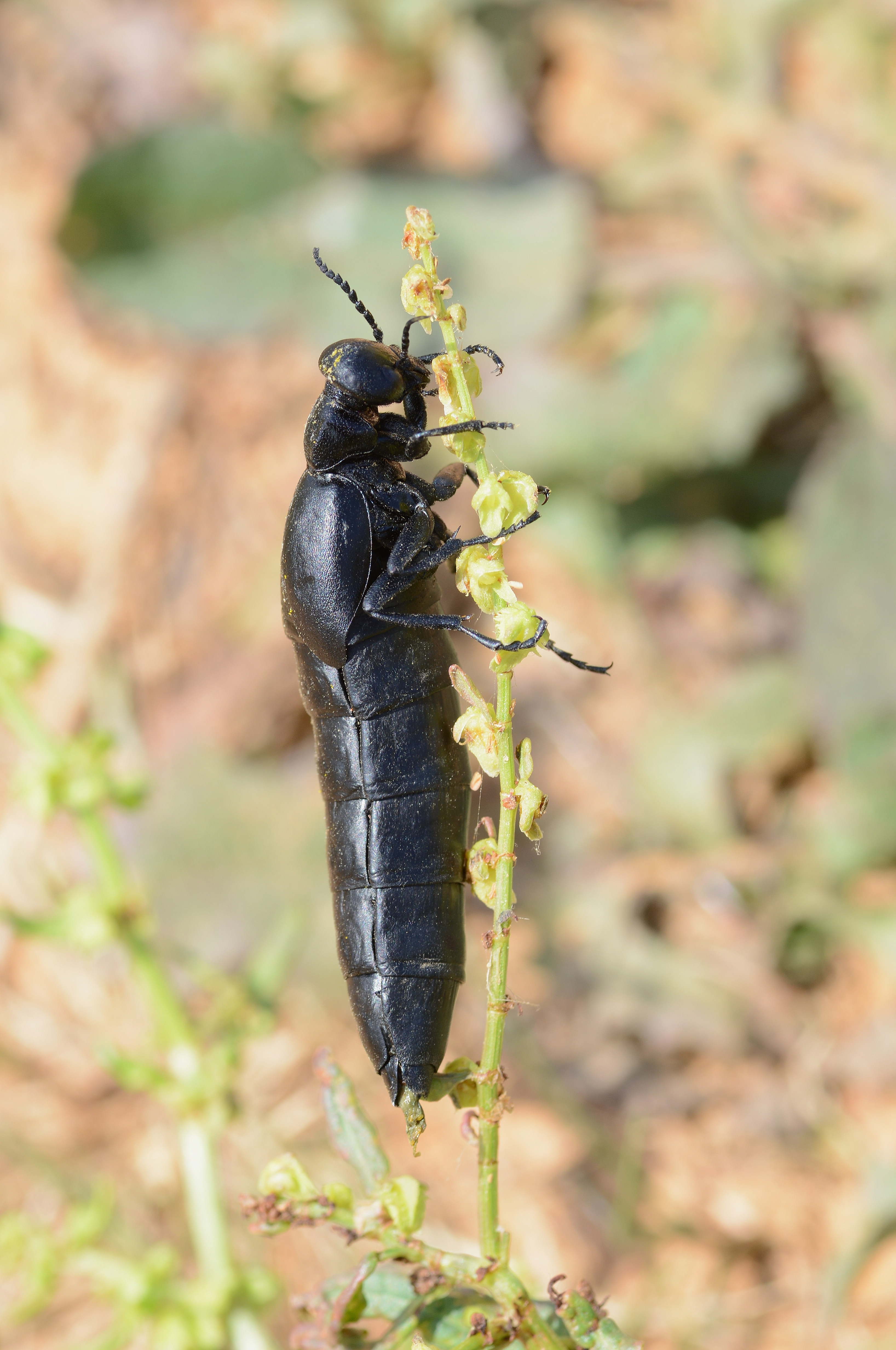 Oil beetle (Berberomeloe majalis). Cercal, Portugal.